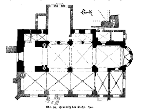 Ground plan of St. Nicolai in Mölln before 1896, from Richard Haupt: Die Bau und Kunstdenkmäler der Provinz Schleswig-Holstein: Die Bau und Kunstdenkmäler im Kreise Herzogtum Lauenburg Ratzeburg: E. Homann, 1890, S. 113